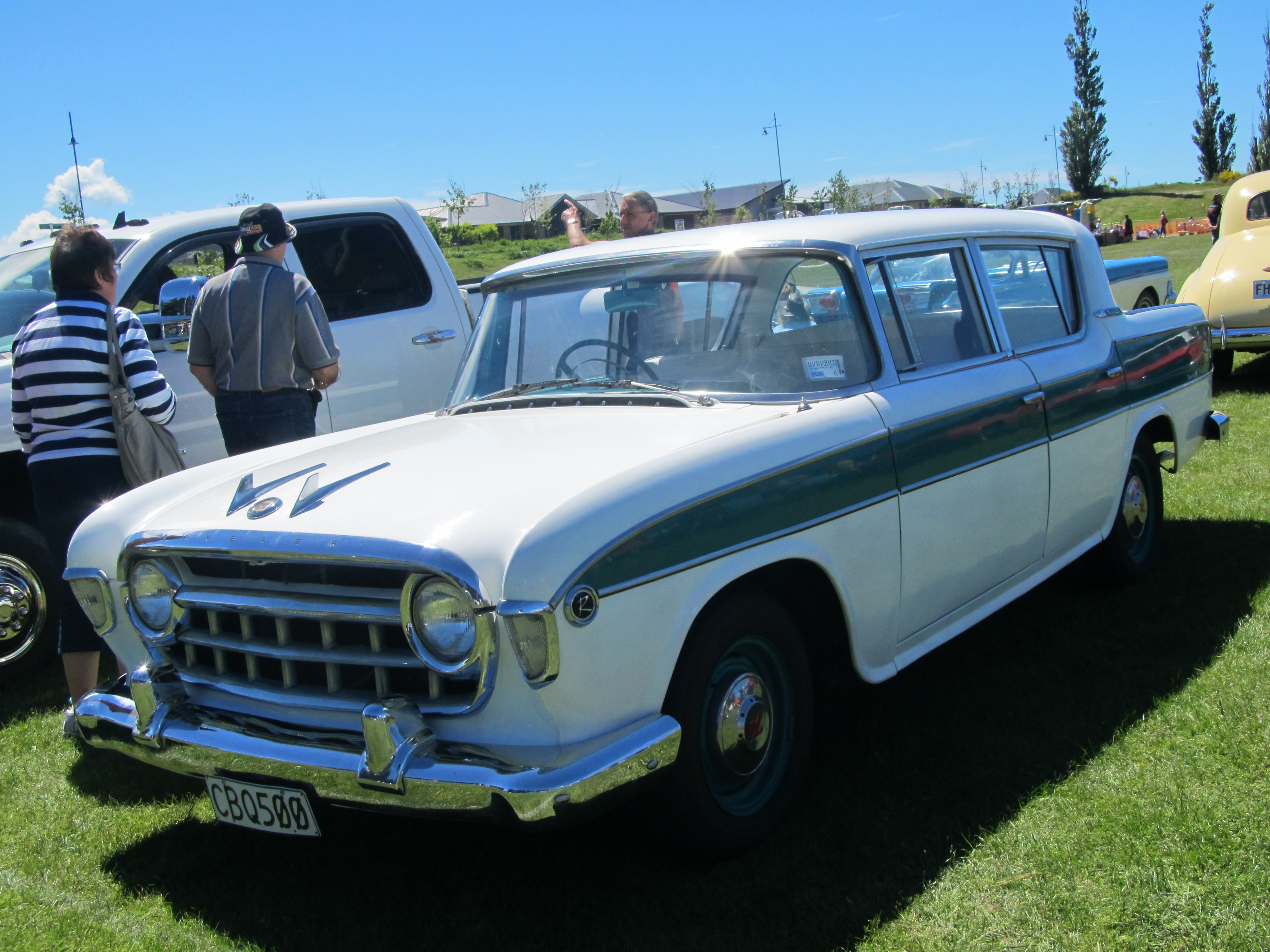 Another neat old cruiser from an often overlooked manufacturer. I think this may be a NZ new car, and possibly even one that was assembled here. (Note: American Motors (AMC) Ramblers marketed under the historic Nash brand in New Zealand.)